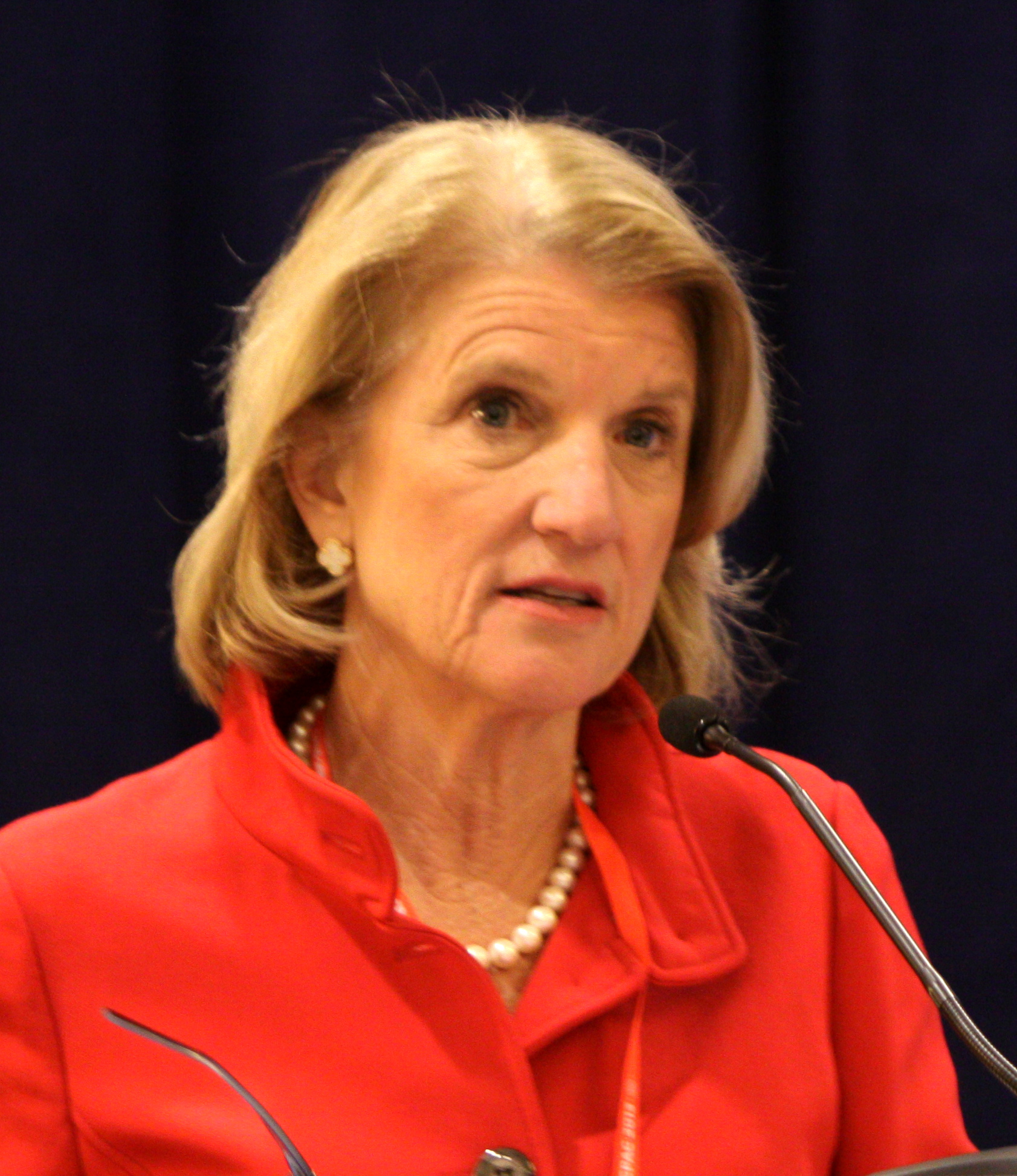 Congresswoman Shelley Moore Capito of West Virginia speaking at the 2013 Conservative Political Action Conference (CPAC) in National Harbor, Maryland.